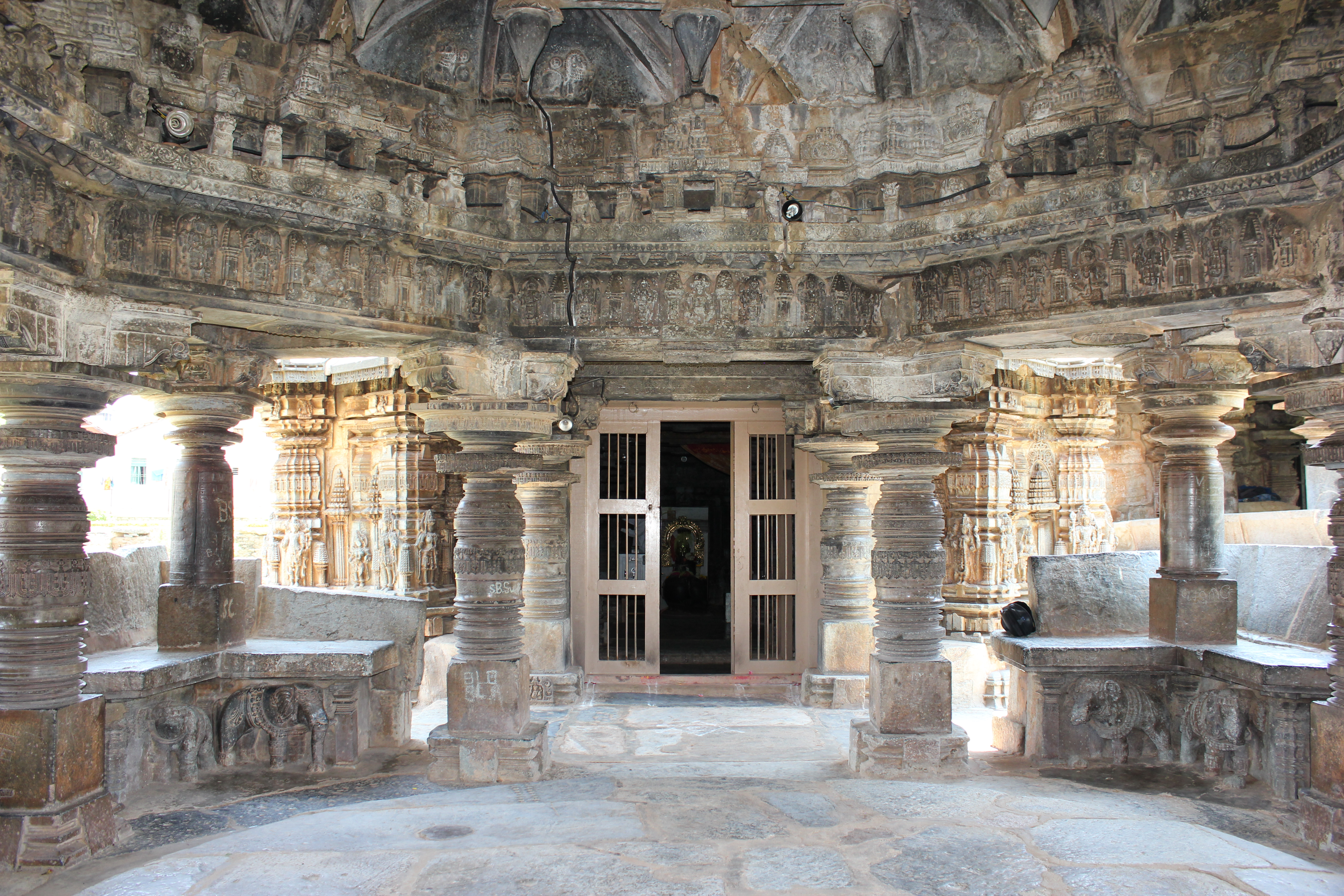 This photograph was taken by self (Dinesh Kannambadi) at the Ishvara temple (also spelt Isvara or Ishwara) in Arasikere, Hassan district, Karnataka state, India. The temple was built in 1220 AD during the rule of the Hoysala Empire King Veera Ballala II.